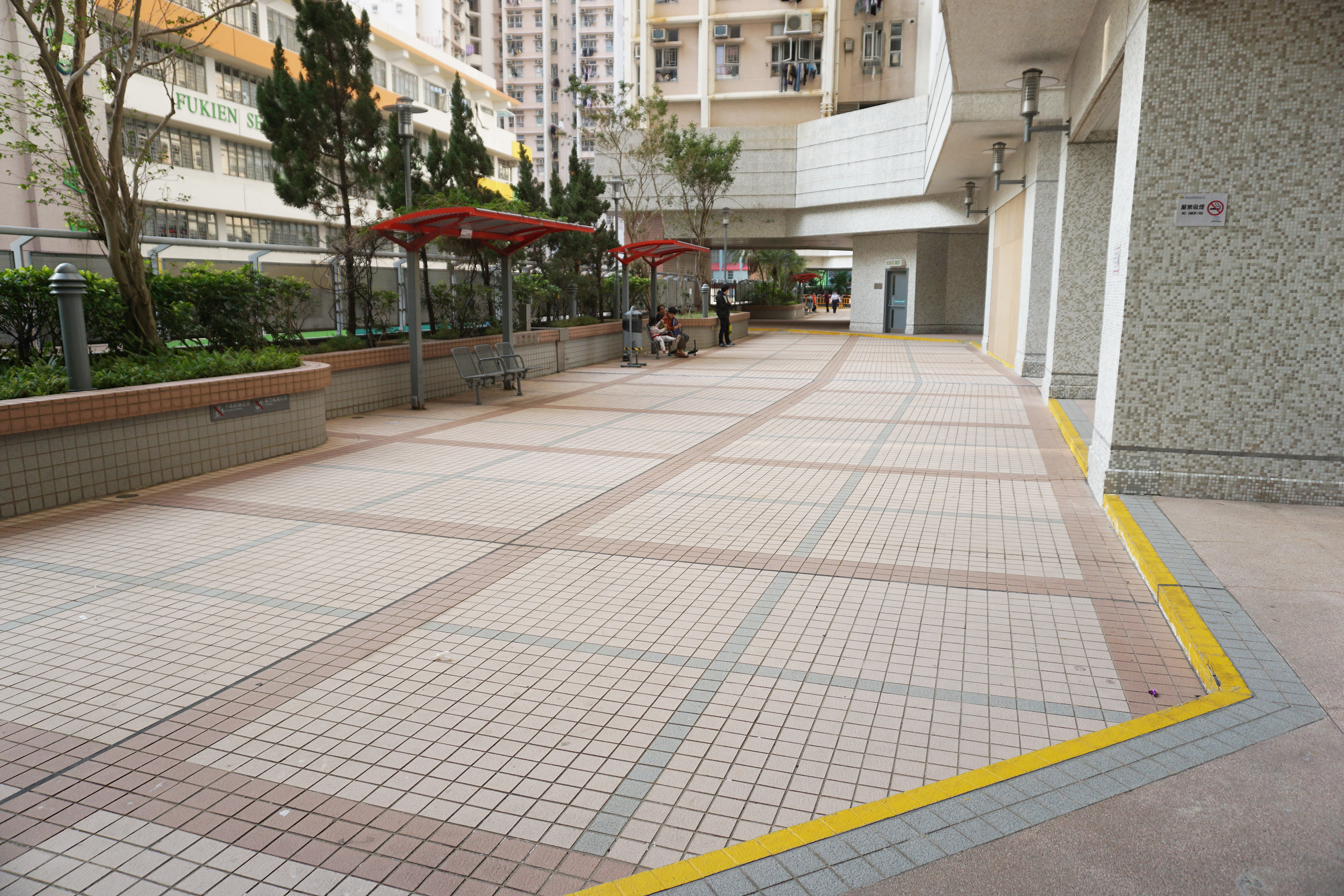 Yau Tsui Court in Yau Tong, Hong Kong.